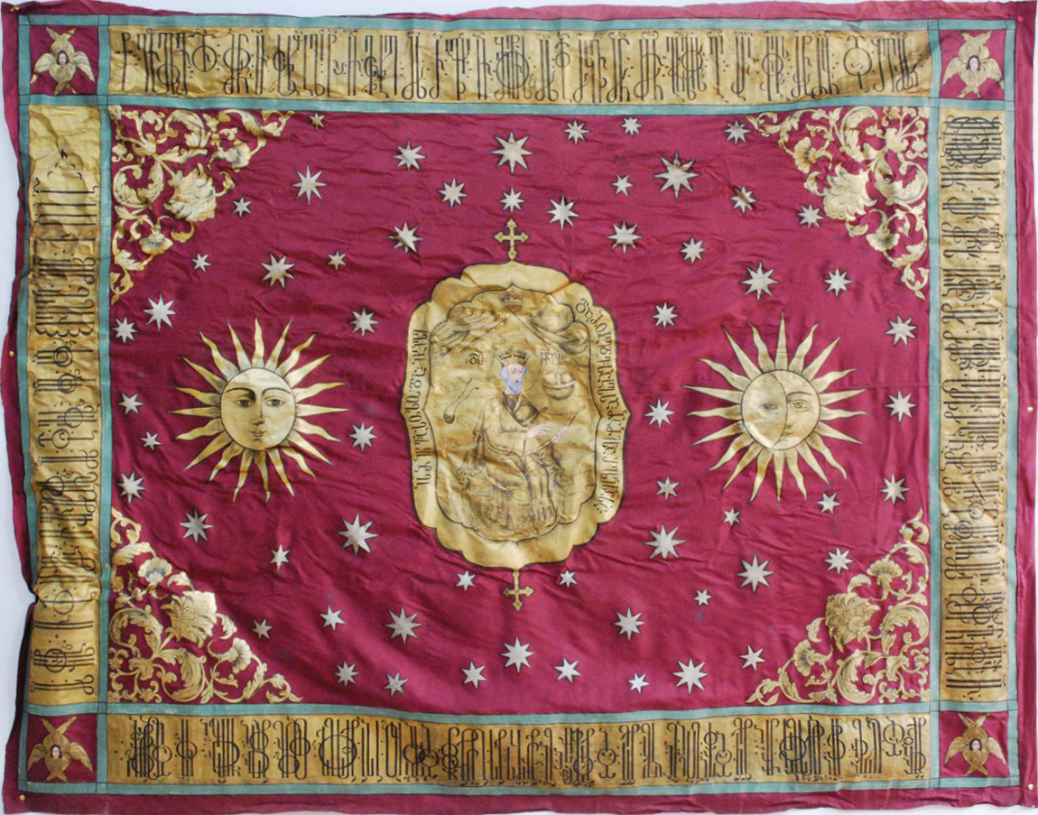 Flag of the Georgian king Vakhtang VI of Kartli